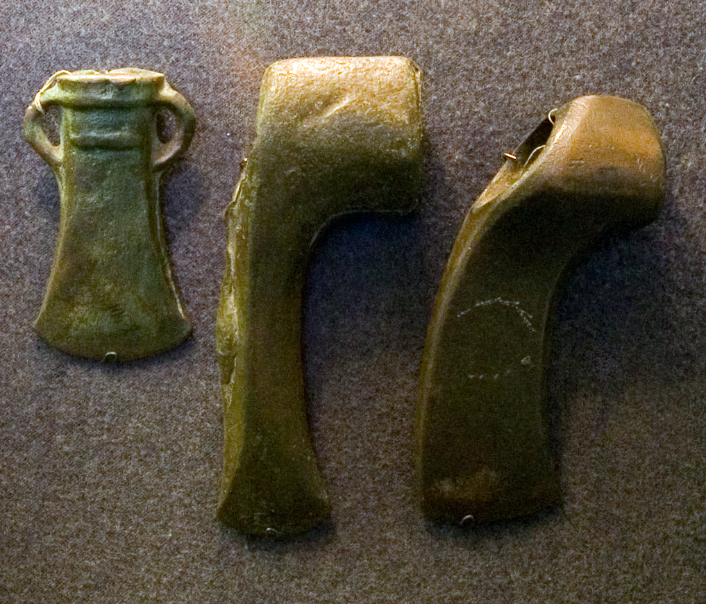 Objects found during excavations